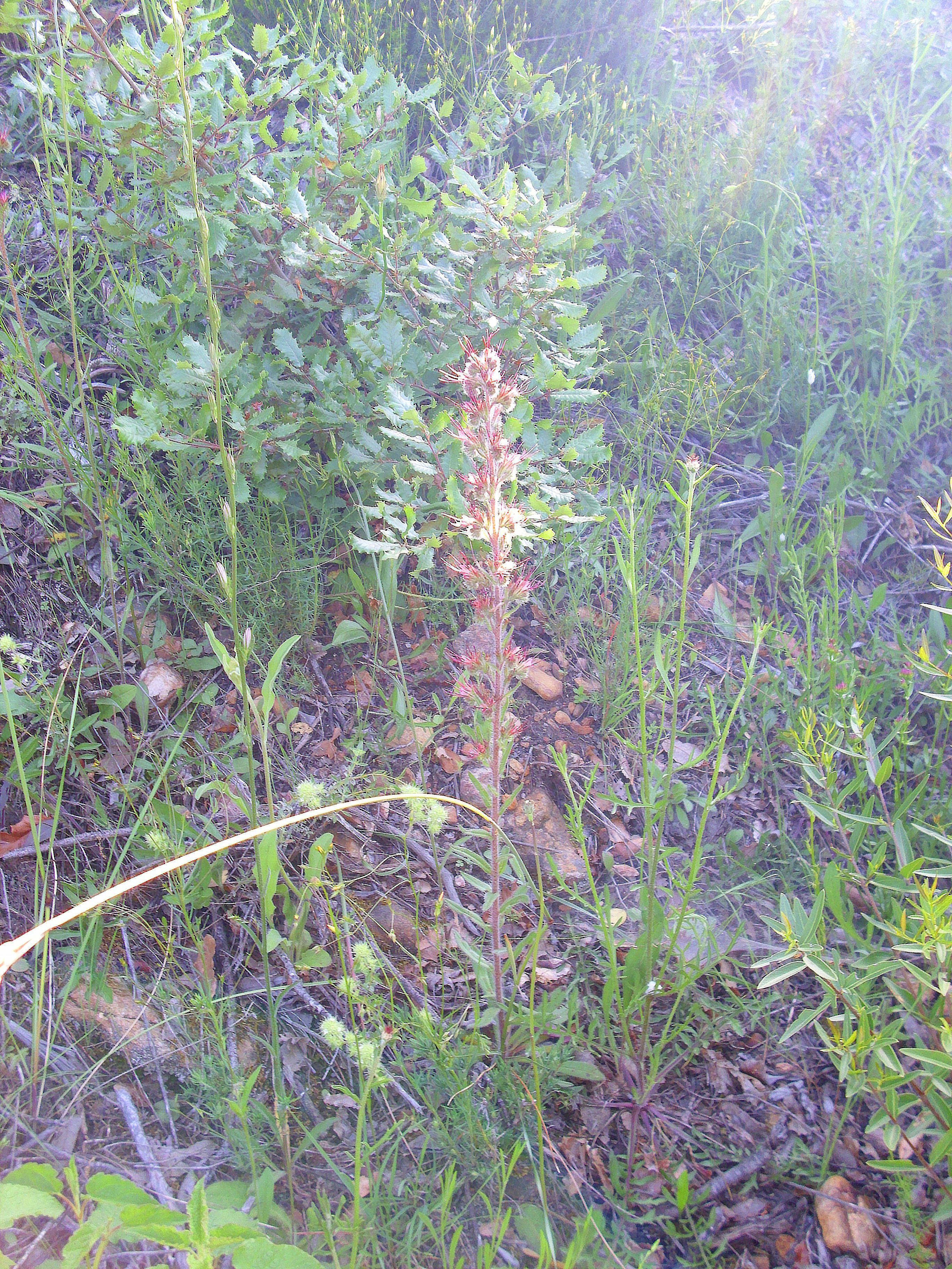 Echium flavum habitat, Sierra Madrona, Spain